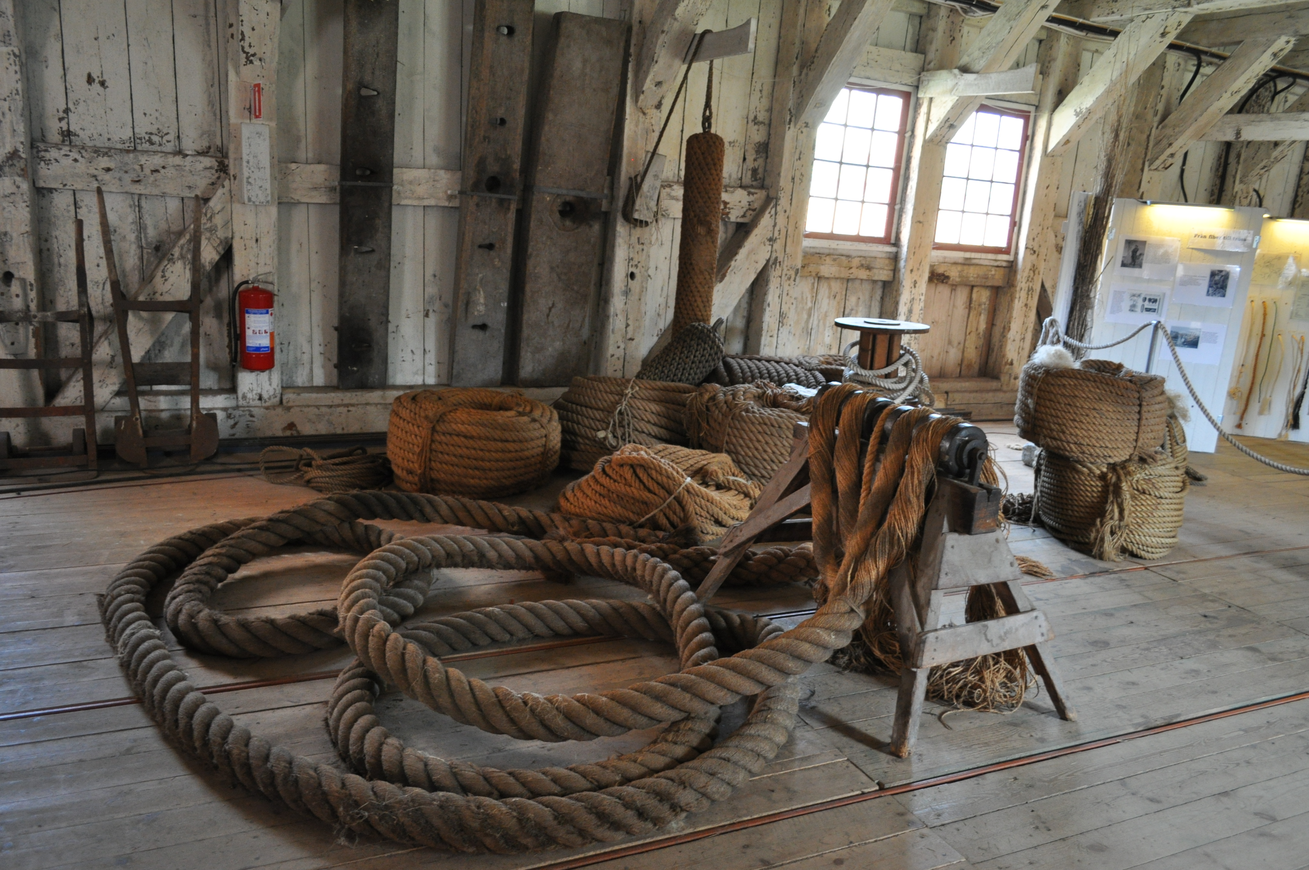 Rope in the rope-walk on Karlskrona naval base